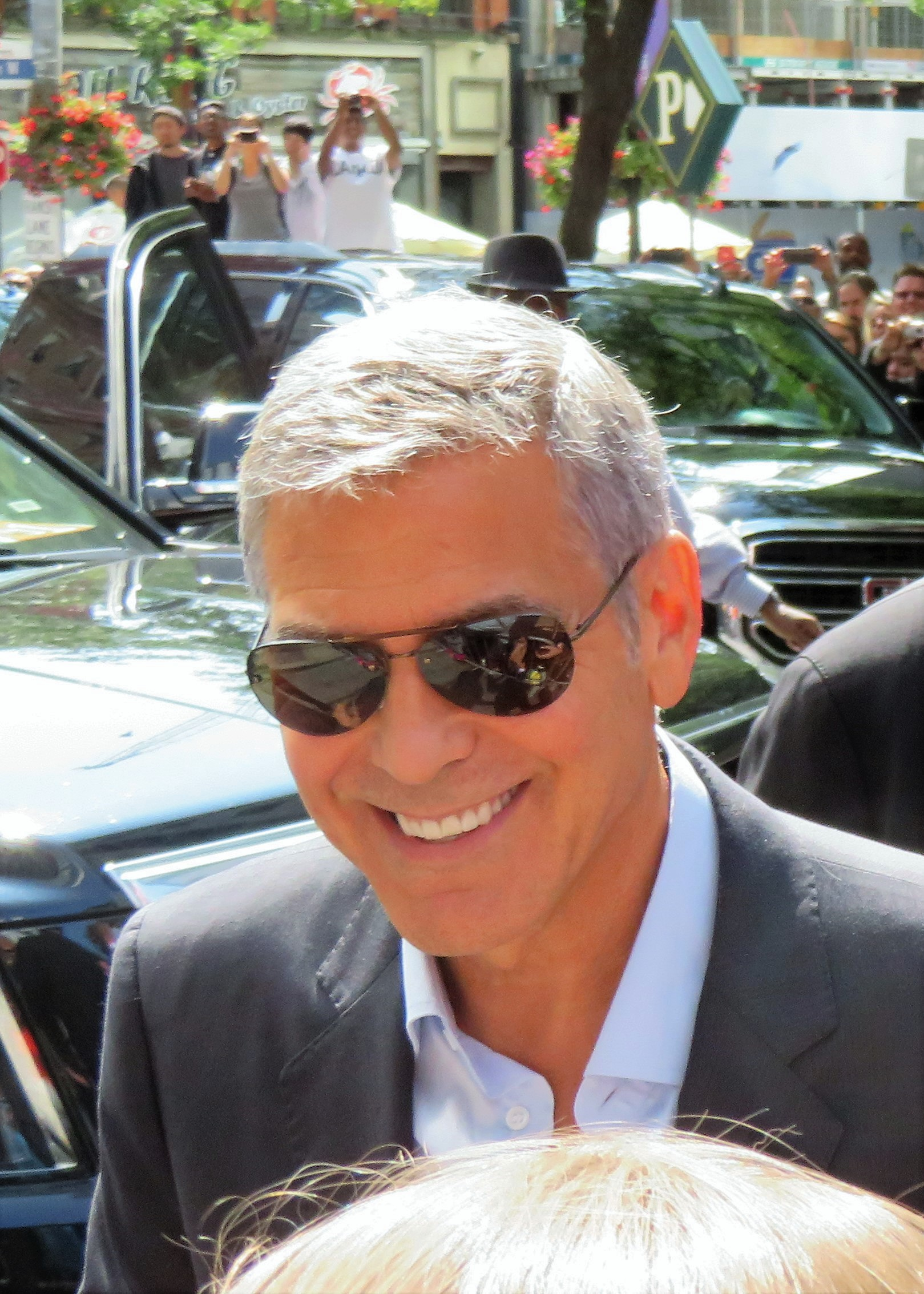 George Clooney at the press conference of Suburbicon, 2017 Toronto Film Festival